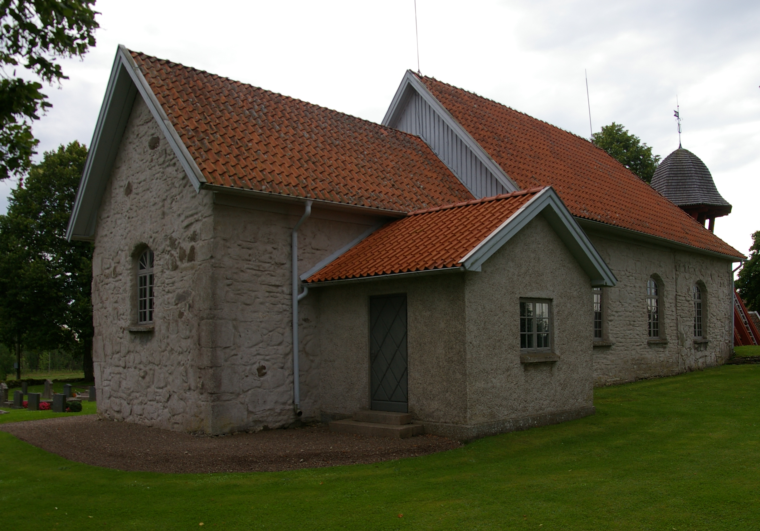 Kälvene kyrka (Swedish:Church of Kälvene) in Västergötland, Sweden.